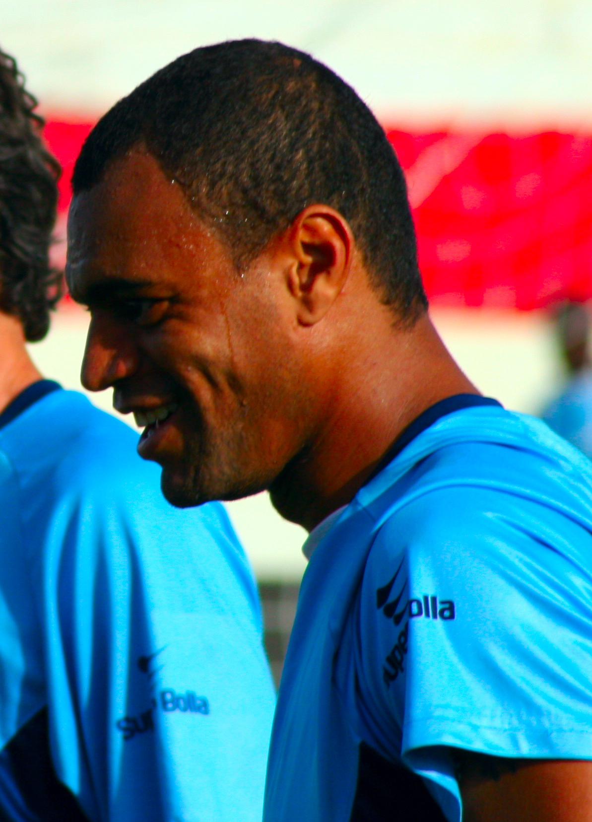 Túlio and Denílson at Itumbiara's practice.